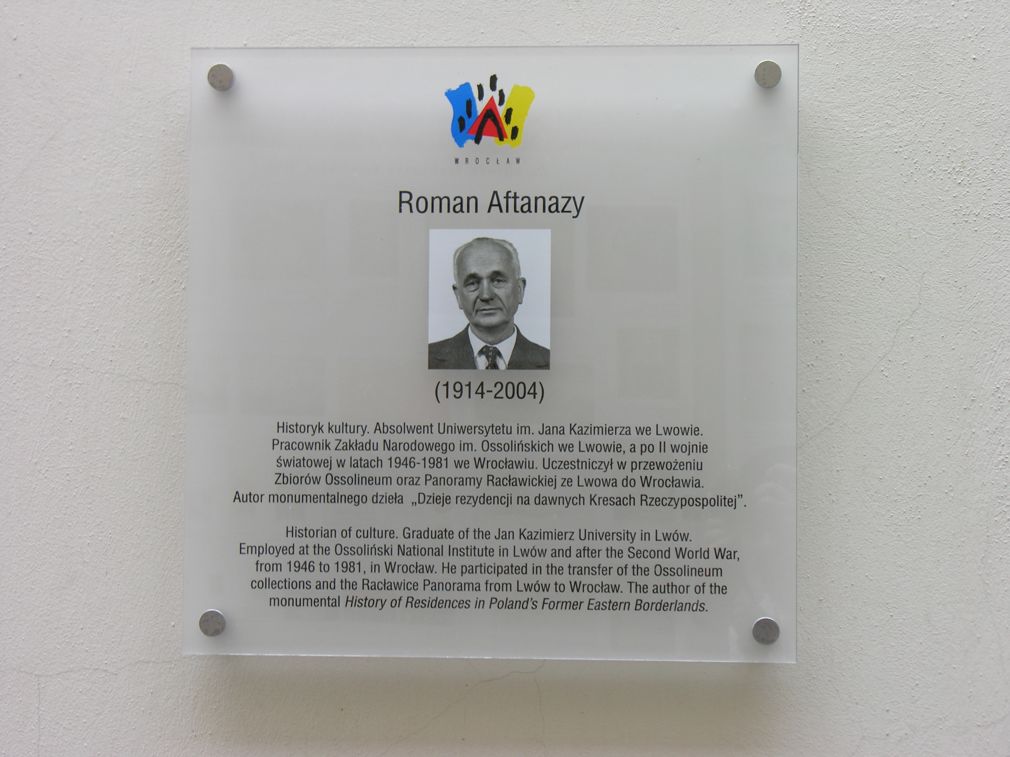 Tablica ku czci Romana Aftanazego, Wrocław, Zaułek Ossoliński